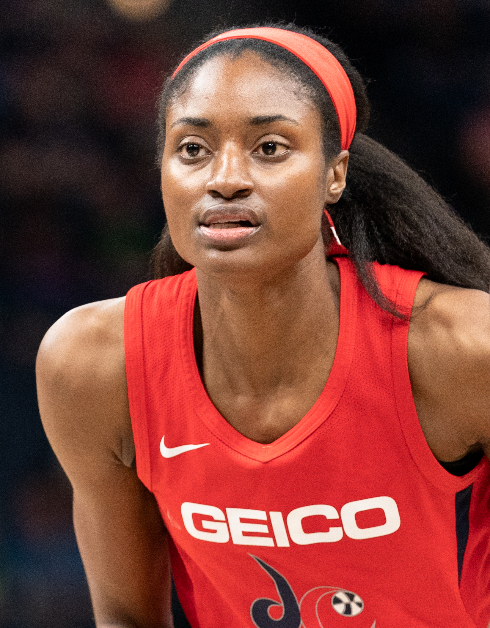 Washington Mystics player LaToya Sanders in a game against the Minnesota Lynx